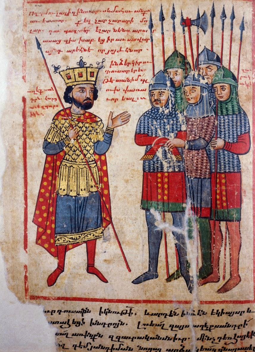 Alexander romance. Armenian illuminated manuscript of XIV century (Venice, San Lazzaro, 424)